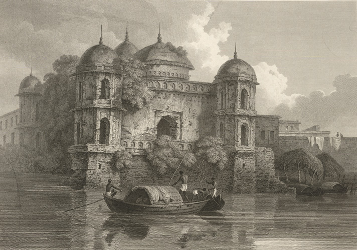 Military surgeon James Atkinson wrote that this Dhaka mosque on the Buriganga reminded him of buildings in Vencice, as it "rises immediately from the margin of the river, with an effect at once stately and picturesque. Its neglected domes and arches are now shattered by accidents, and crumbling to decay; yet in the general proportions and character of its architecture, the principles of elegance and simplicity appears to be combined ... Time and vegetation, and storms and sunshine, have not only tinted it with rich variety, but so tempered the vividness of its hues, that a cool solemnity , suited to religious musing, still appears to prevail here." This etching is taken from plate 17 of Charles D'Oyly's 'Antiquities of Dacca', for which Atkinson wrote the accompanying text.